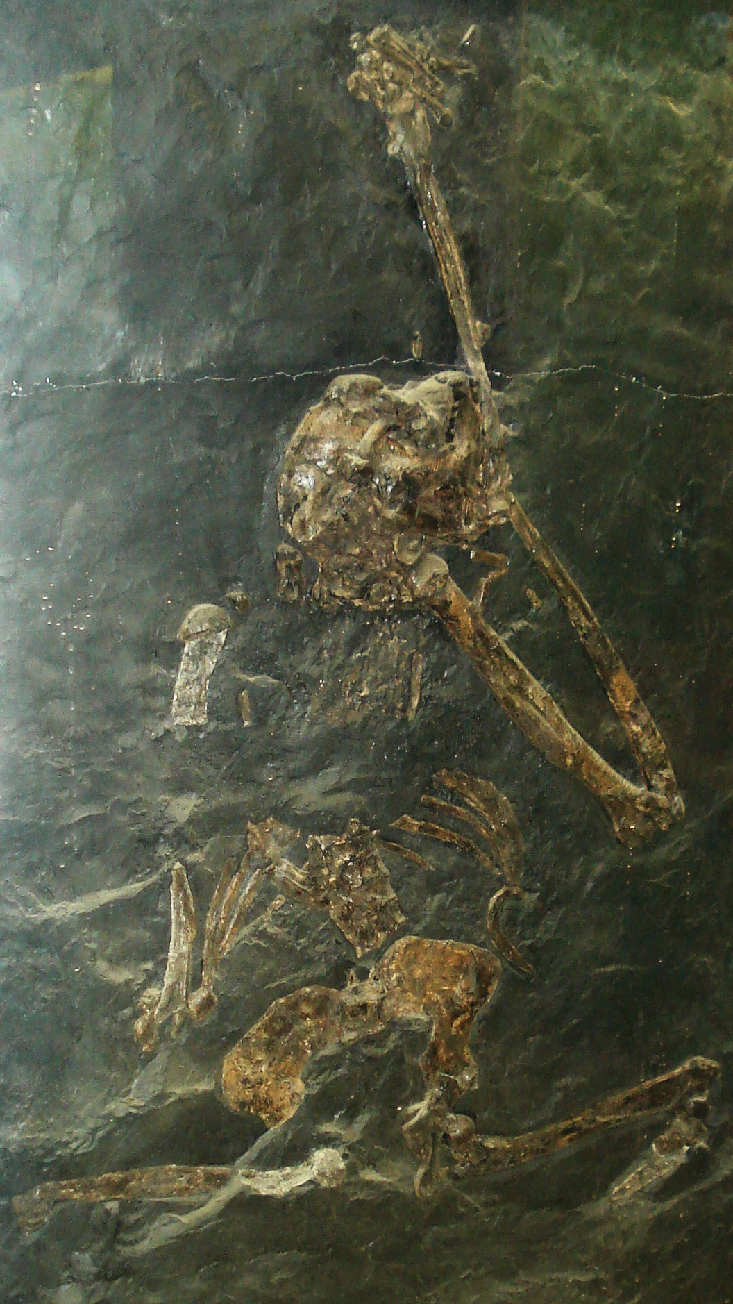 Fossil of Oreopithecus bambolii, an extinct ape